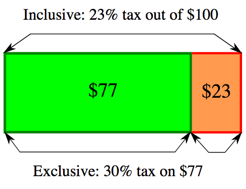 Presentation of Inclusive / Exclusive tax as applied to the FairTax